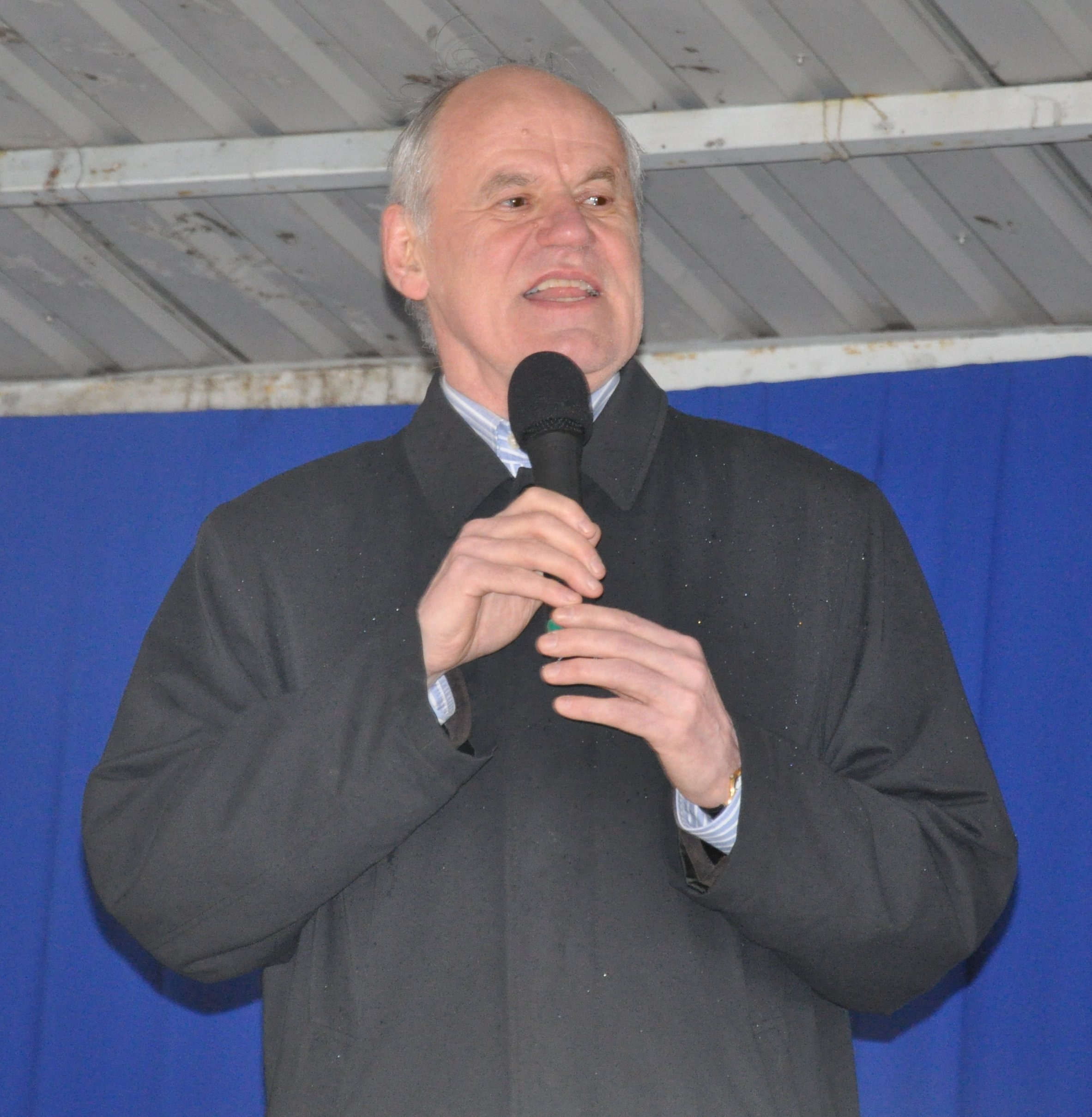 Chairman of the Turku City Council Jukka Mikkola at Ville Itälä's birthday celebrations in Turku, Finland 2009.